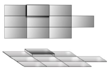 Visual representation of NoSQL initiatives